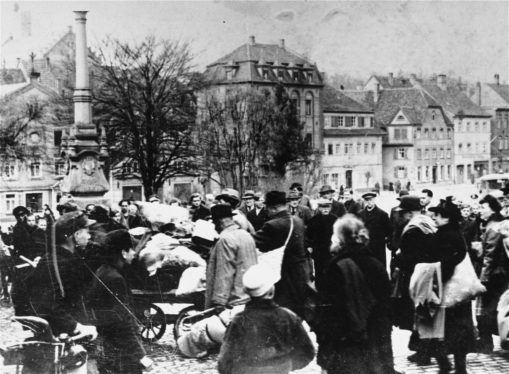 See title